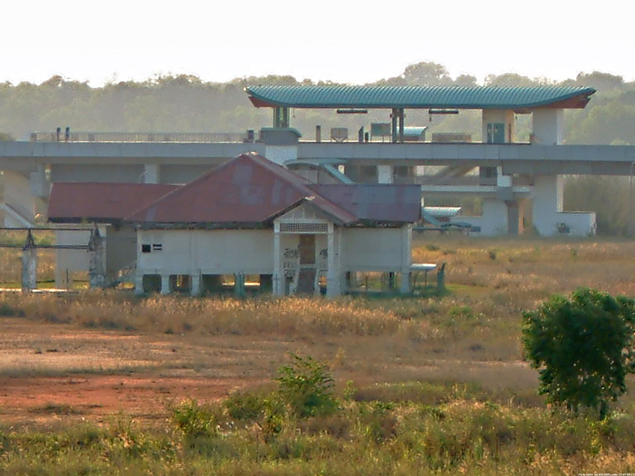 PW7 Seng Teck Station along the Punngol LRT West Loop It is currently closed due to lack of development in the area Pic by Calvin Teo, Dec 2005